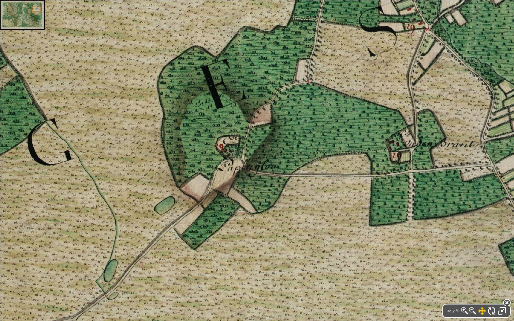 Papinglo farm, Maldegem, Belgium